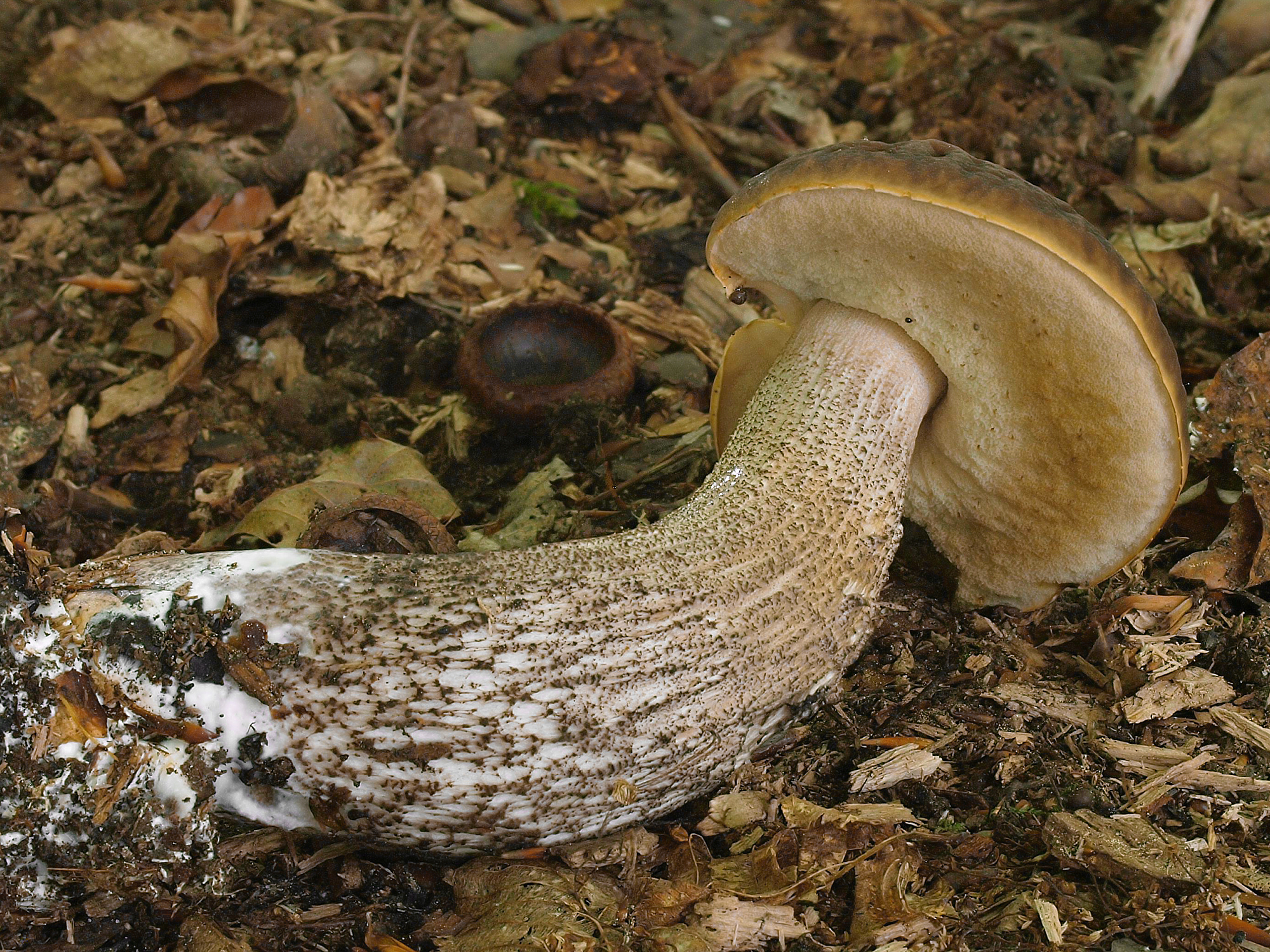 Hazel Bolete (Leccinum pseudoscabrum)